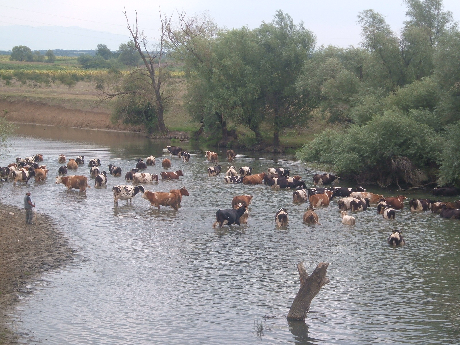 Cows in the Karaš River near Straža village, Serbia.